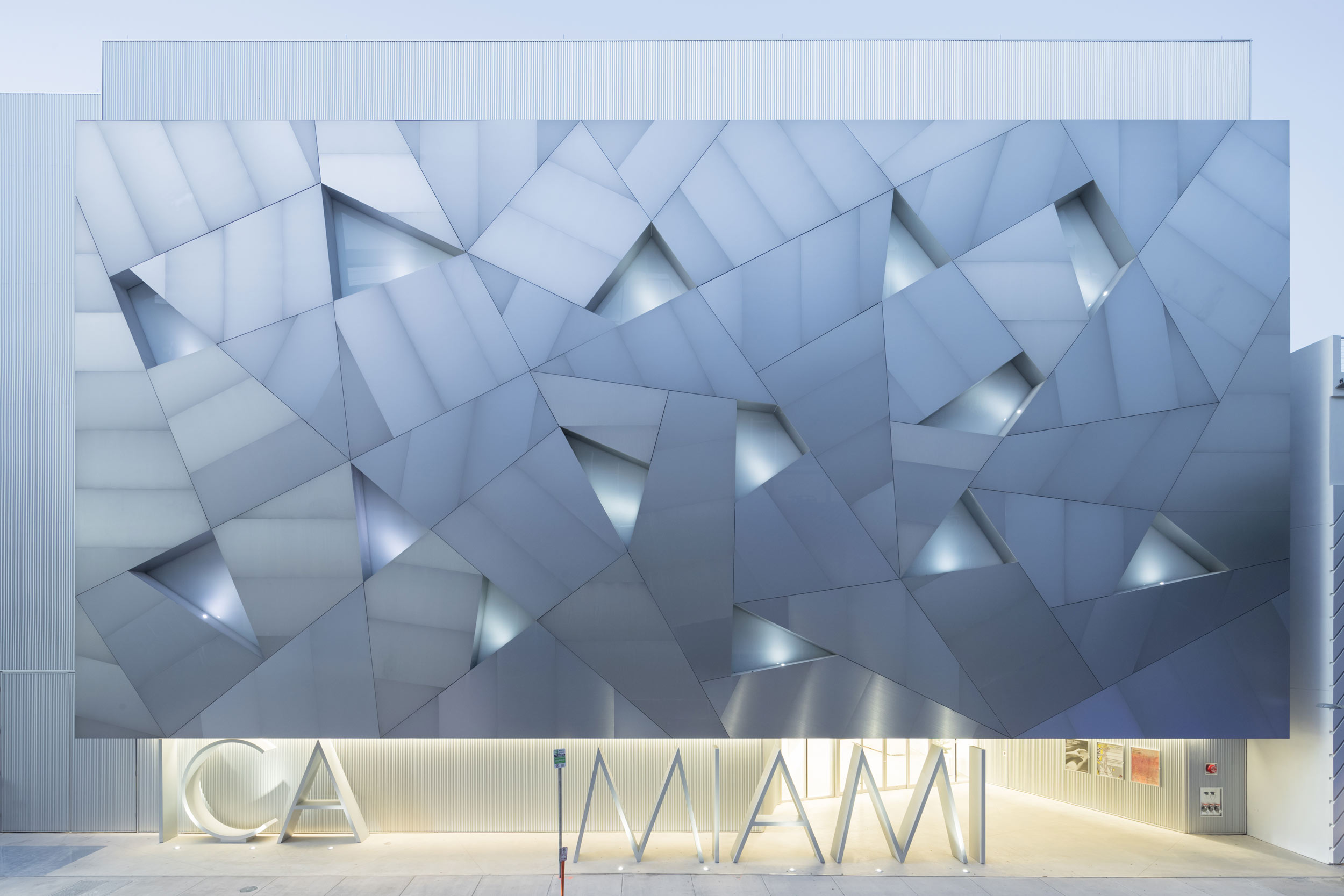 Institute of Contemporary Art, Miami (ICA Miami). Photo by Iwan Baan.